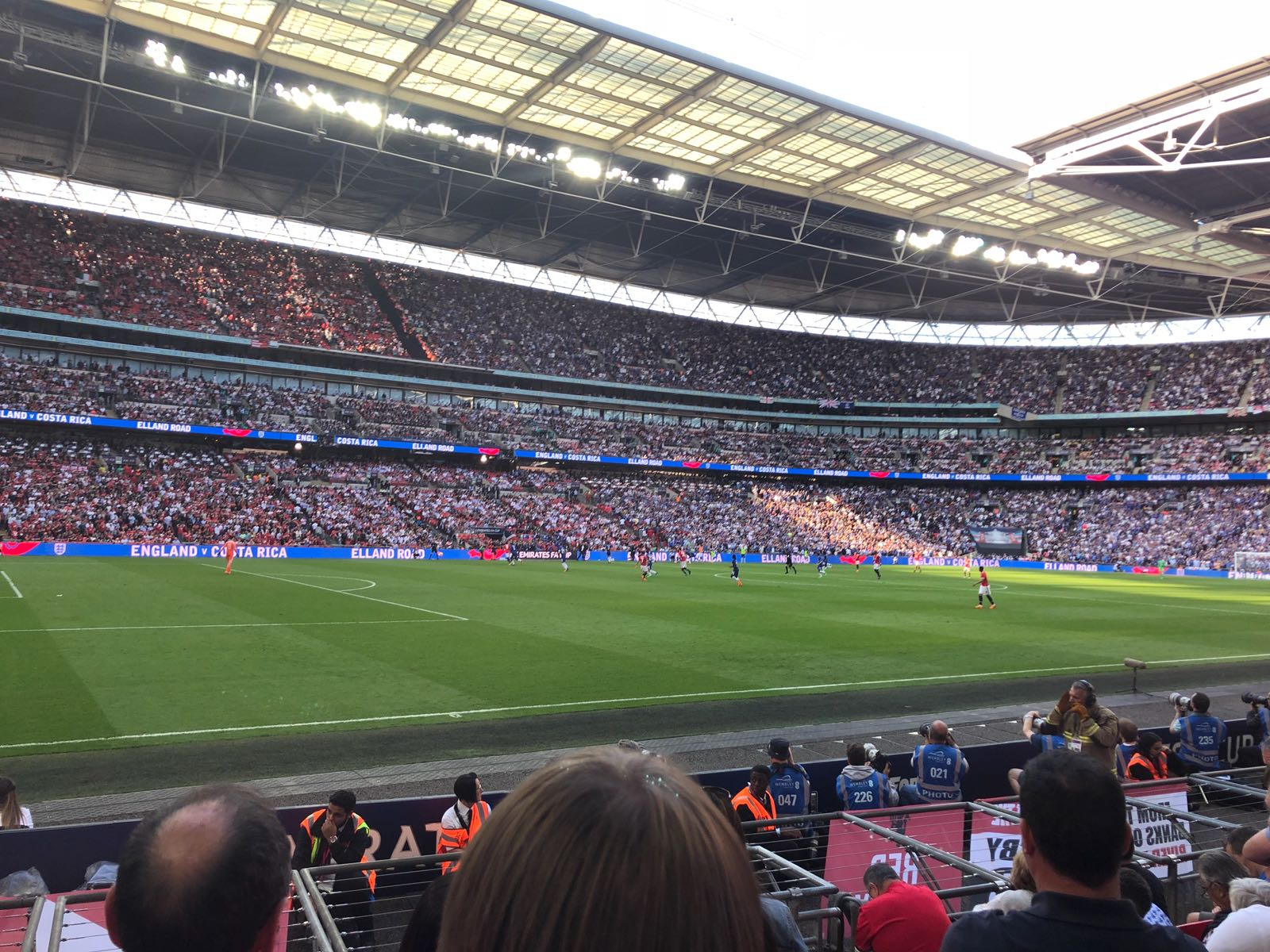 Manchester United vs Chelsea FA Cup Final 2018